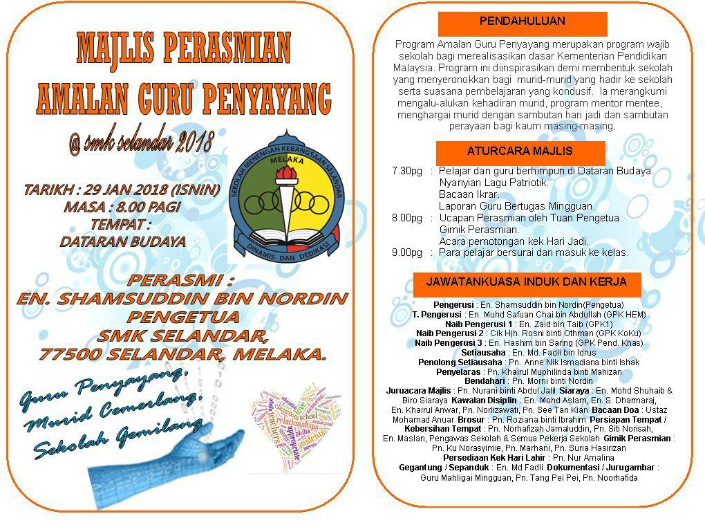 PENYANYANG 1